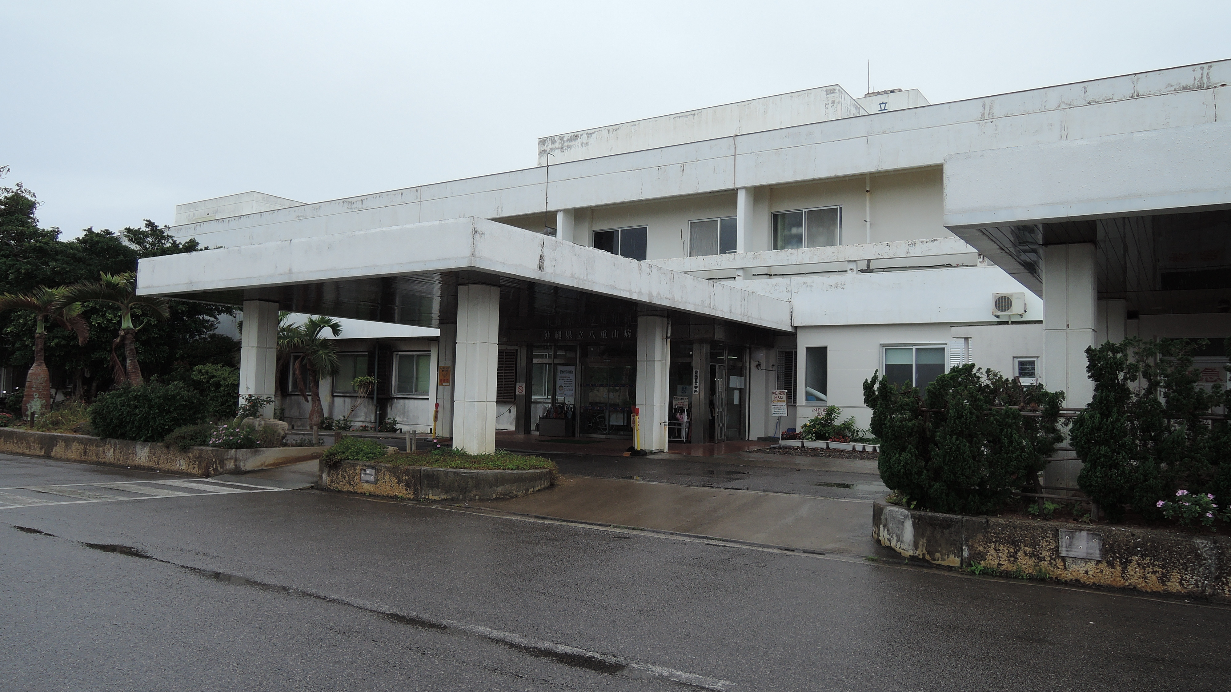 Okinawa prefectural Yaeyama hospital,Okinawa prefecture, Japan